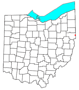 Locator map of the unincorporated community of Negley in Columbiana County, Ohio, United States.